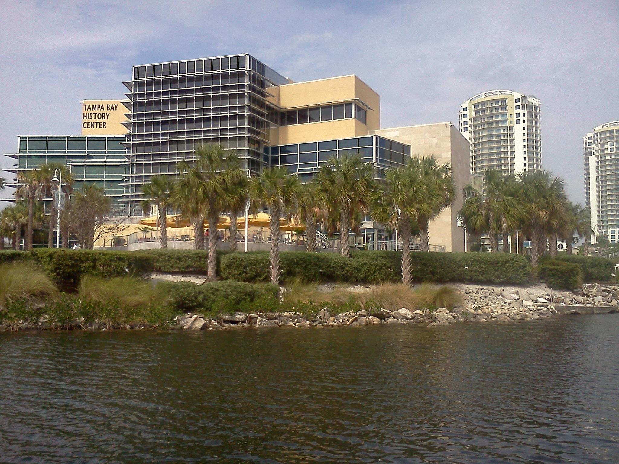 Tampa Bay History Center, Channelside District